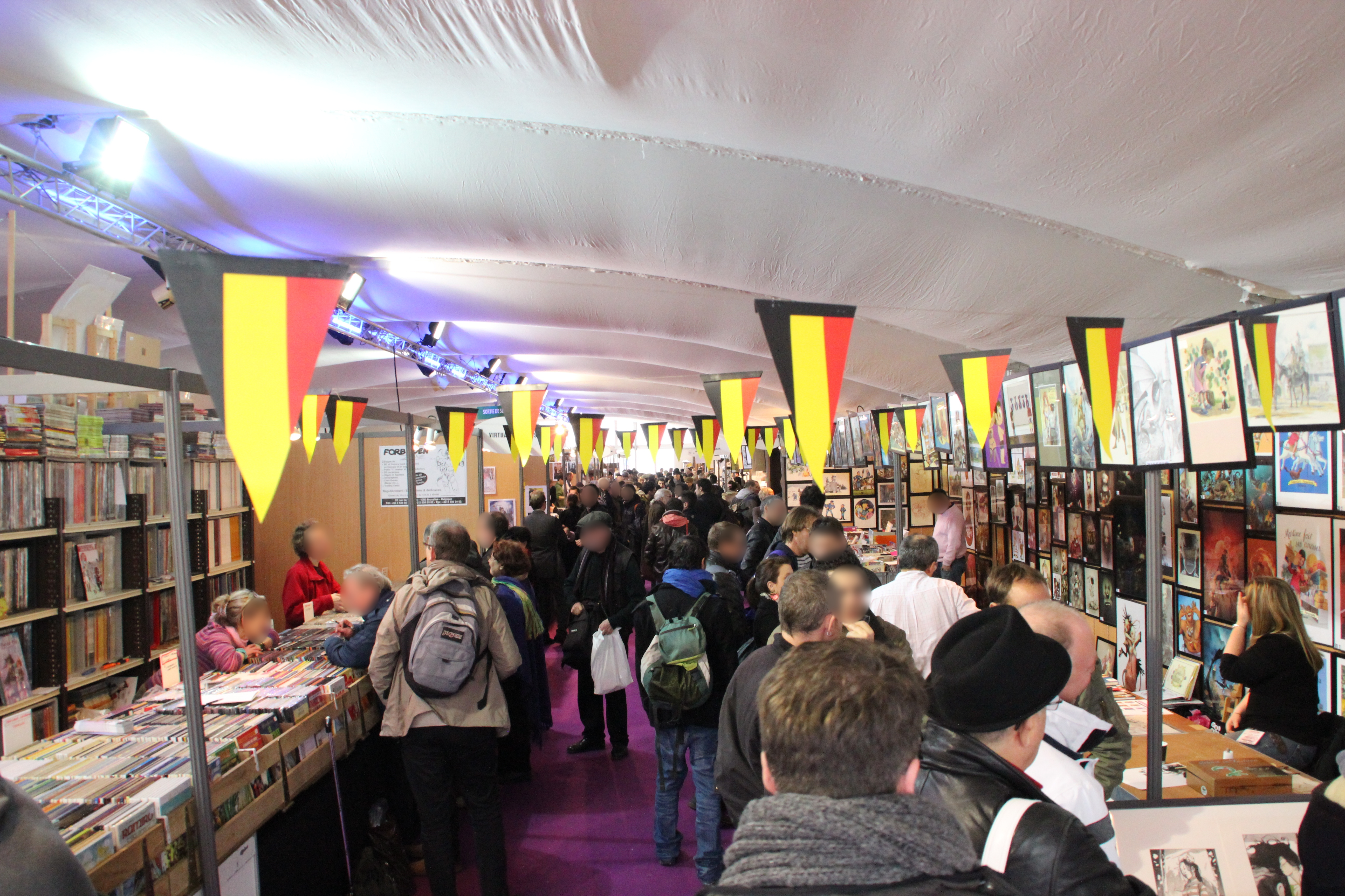 Angoulême International Comics Festival 2013.